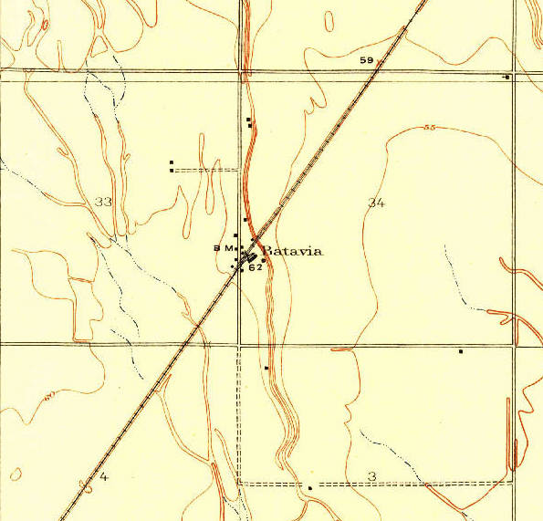 Batavia, California, near Dixon, in 1916